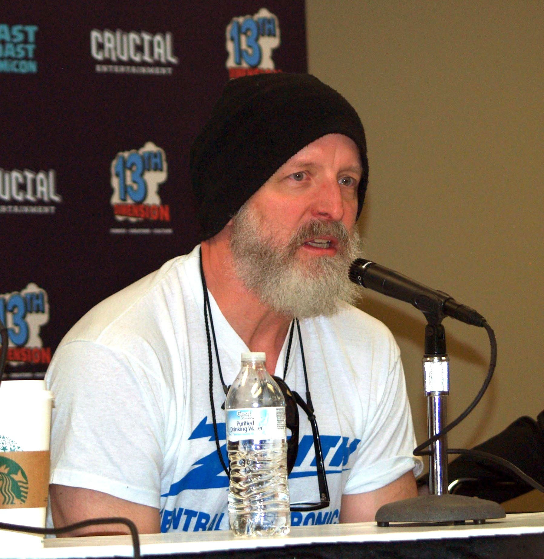 Comics creator/animator Bill Wray, speaking on a panel dedicated to the TV series Ren & Stimpy, at the Meadowlands Exposition Center in Secaucus, New Jersey on April 17, 2016, Day 2 of the 2016 East Coast Comicon. This photo was created by Luigi Novi. It is not in the public domain, and use of this file outside of the licensing terms is a copyright violation.